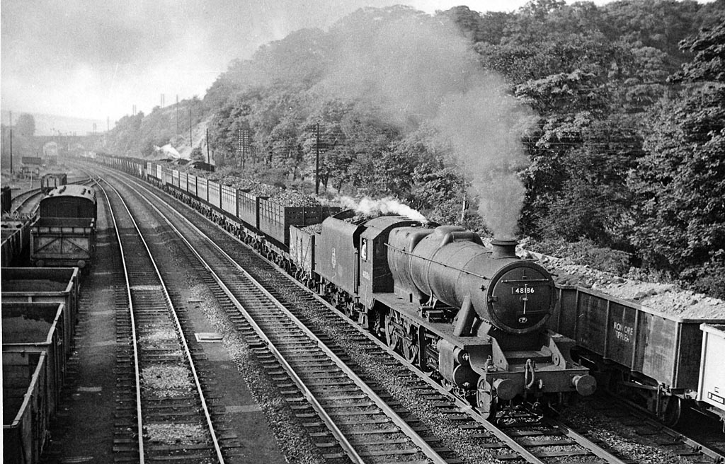 Up coke train approaching Chesterfield Midland Station. View northward, towards Tapton Junction, Sheffield etc.; ex-Midland main north-south trunk line. This train, headed by Stanier 8F 2-8-0 No. 48186 and formed of high-capacity coke wagons, followed soon after the Up express in SK3871 : Up express approaching Chesterfield (Midland) Station - and the iron ore train on the Down Slow has not moved yet.